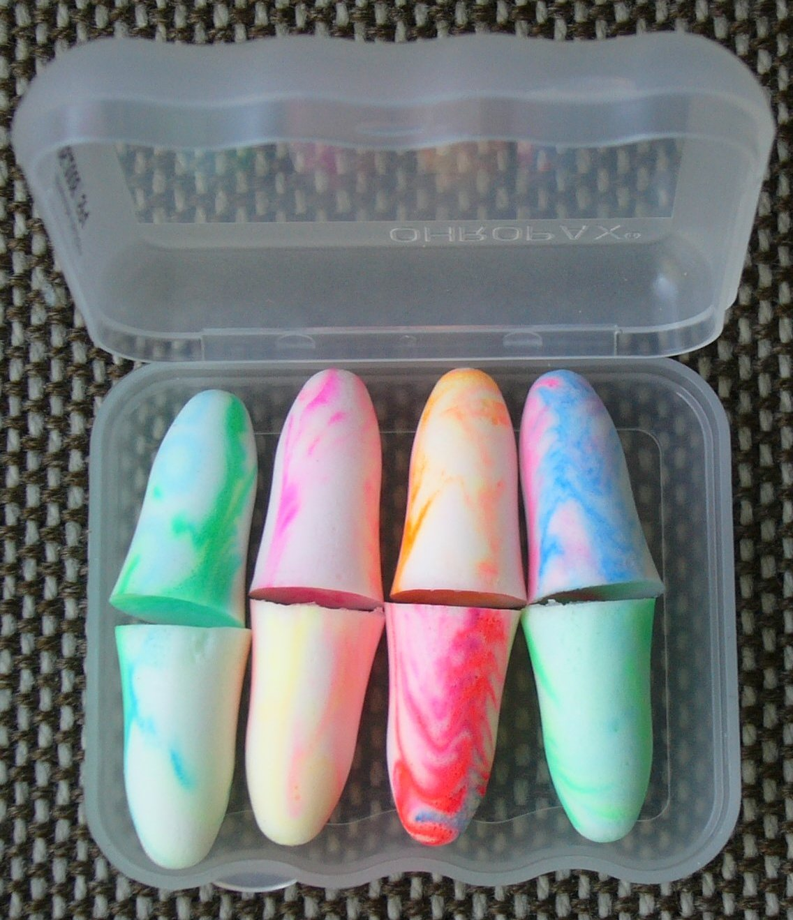 Ear plugs made by Ohropax.